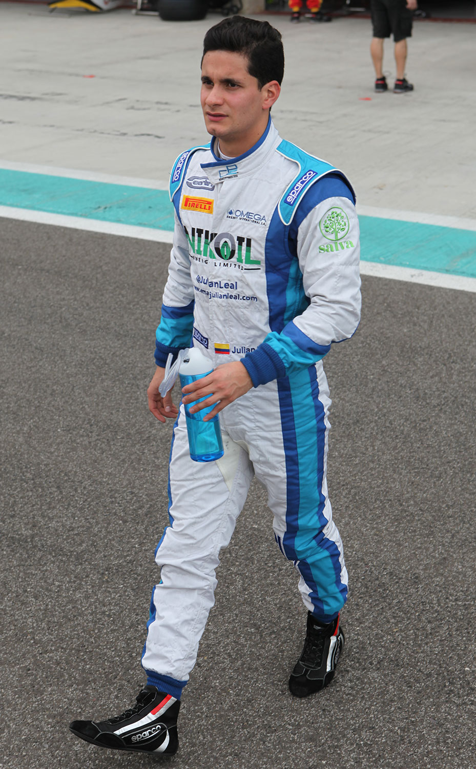 Julian Leal Test Abu Dhabi 11-03-2014